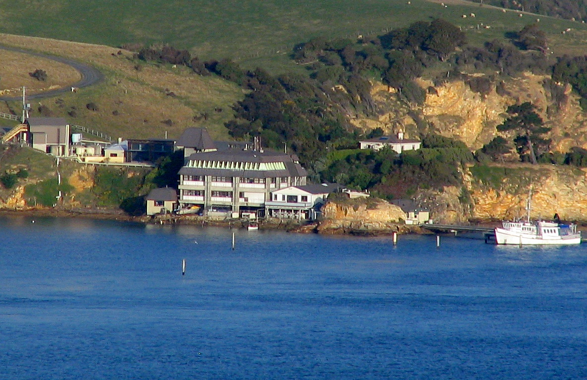 Portobello Marine Laboratory, Dunedin, New Zealand. Polaris II moored on right